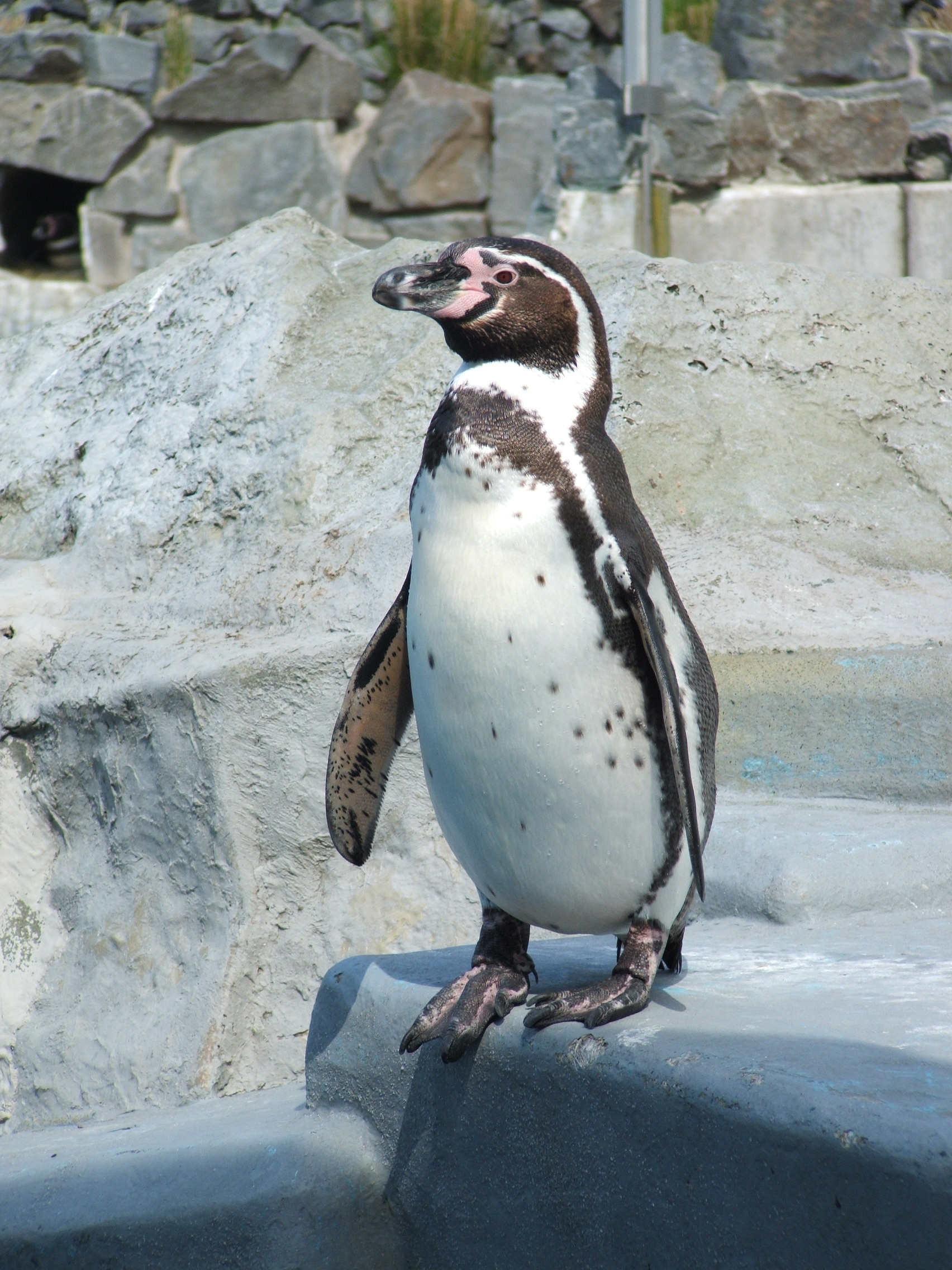 Humboldt Penguin (Spheniscus humboldti) at Kölner Zoo, Cologne, Germany. Spheniscus humboldti ( Humboldtpinguin im Kölner Zoo )